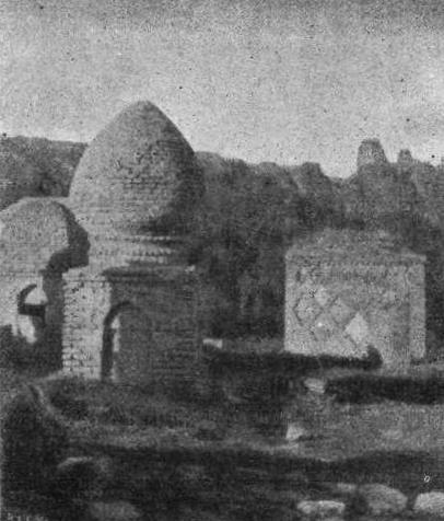 Said thomb at Muslim cemetery, Tbilisi (Baron de Baye photo)